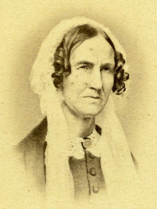 Carte de visite portrait of Orra White Hitchcock, ca. 1860